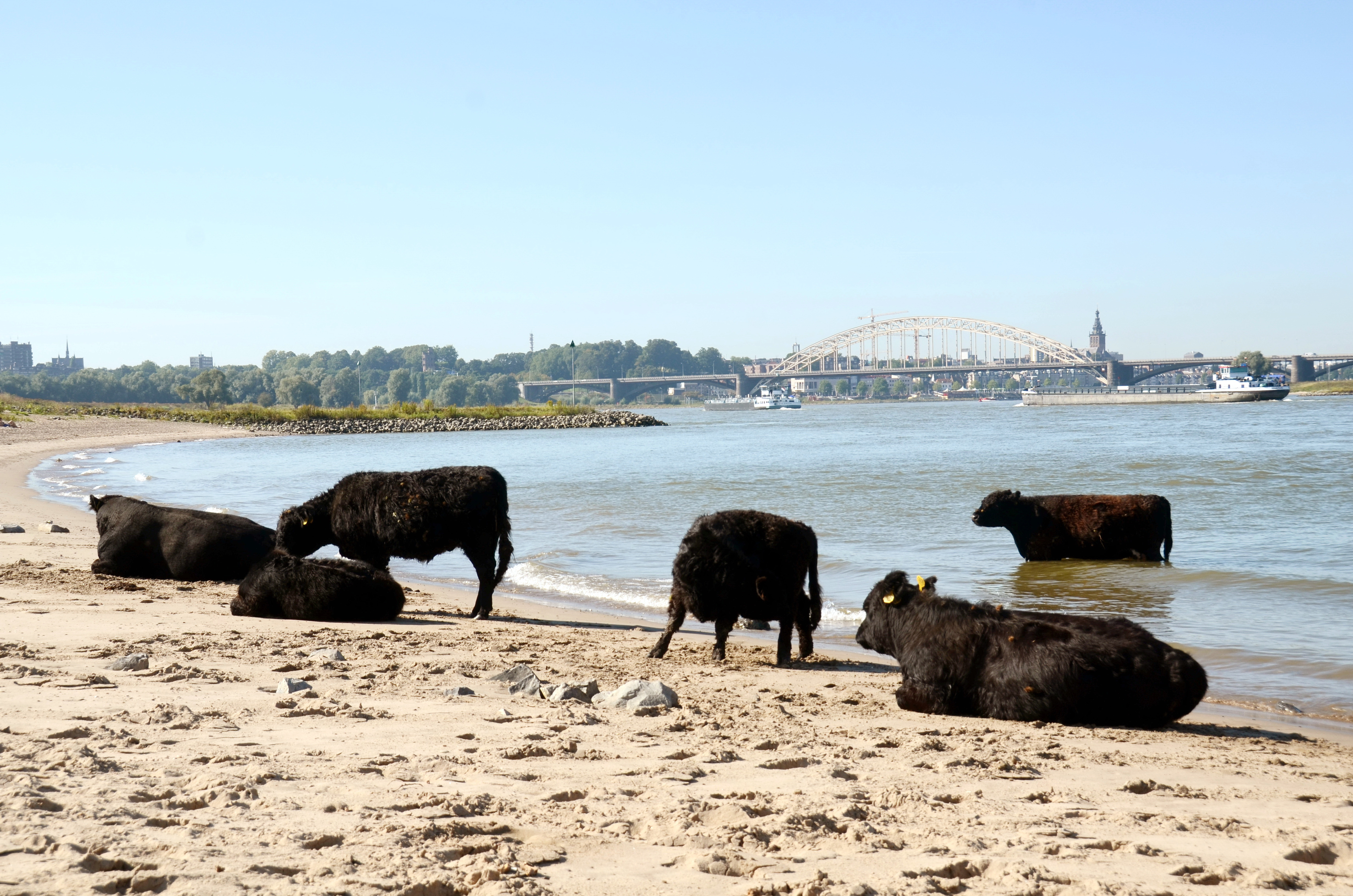 These "wild" cows at Ooijpolder near Nijmegen (behind the bridge) enjoy the warm sunday 9 September 2012